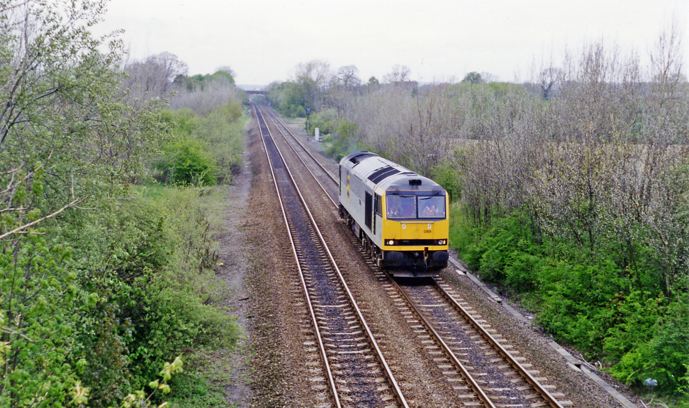 Site of Frickley station, with Diesel locomotive, 1995. View northward, towards Pontefract and York: ex-Midland & NE Joint Swinton & Knottingley main line. This remains the main line between Sheffield and York, but Frickley station was closed to passengers 8/6/53, to goods 30/9/63, and no trace remained. The locomotive running up Light Engine was Class 60 No. 60.033